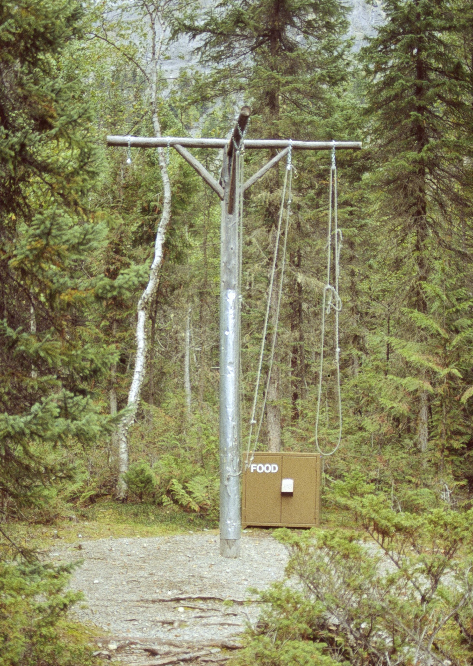 Bear Pole, Berg Lake Trail, Mount Robson Provincial Park, Canada